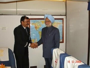 Raju Bhavsar is former indian kabaddi player who is Arjuna awarde too.this picture was clicked when he was onboard Air india as flight purser, while he met with then p.m Manmohan Singh .